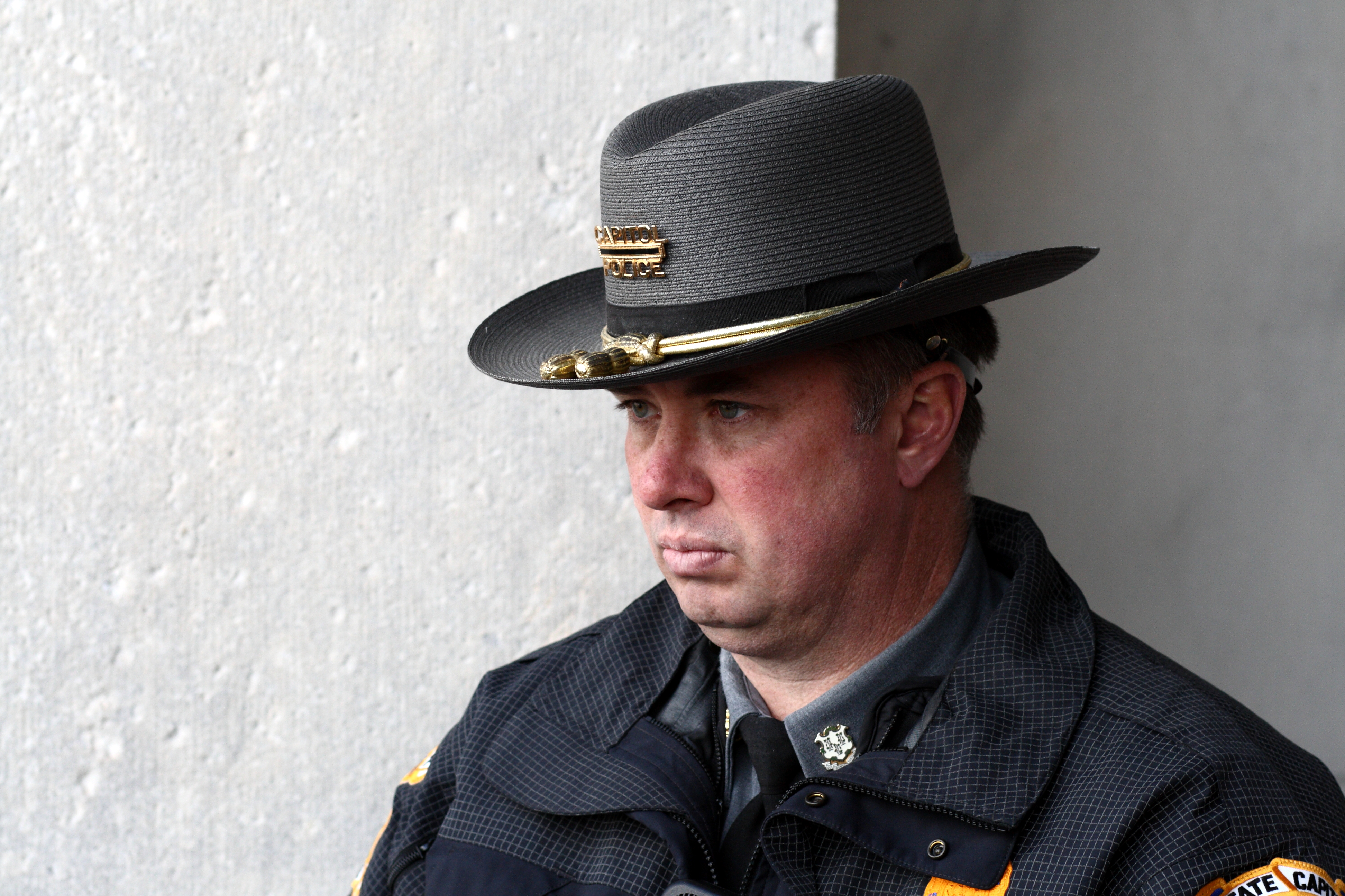 A Capitol Police officer on duty at the Tea Party protest at the Connecticut State Capitol in Hartford, Connecticut. The protest was scheduled for noon until 2pm local time; the timestamp of the photo is Coordinated Universal Time (UTC). Organizers reported that the police estimate of attendance was 5000 people. - OpenStreetMap(Info)